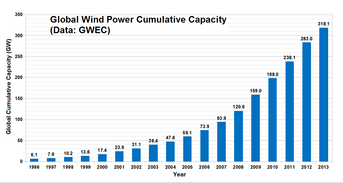 Global Wind Power Cumulative Installed Capacity (Data source: GWEC, Global Wind Statistics 2013[1])